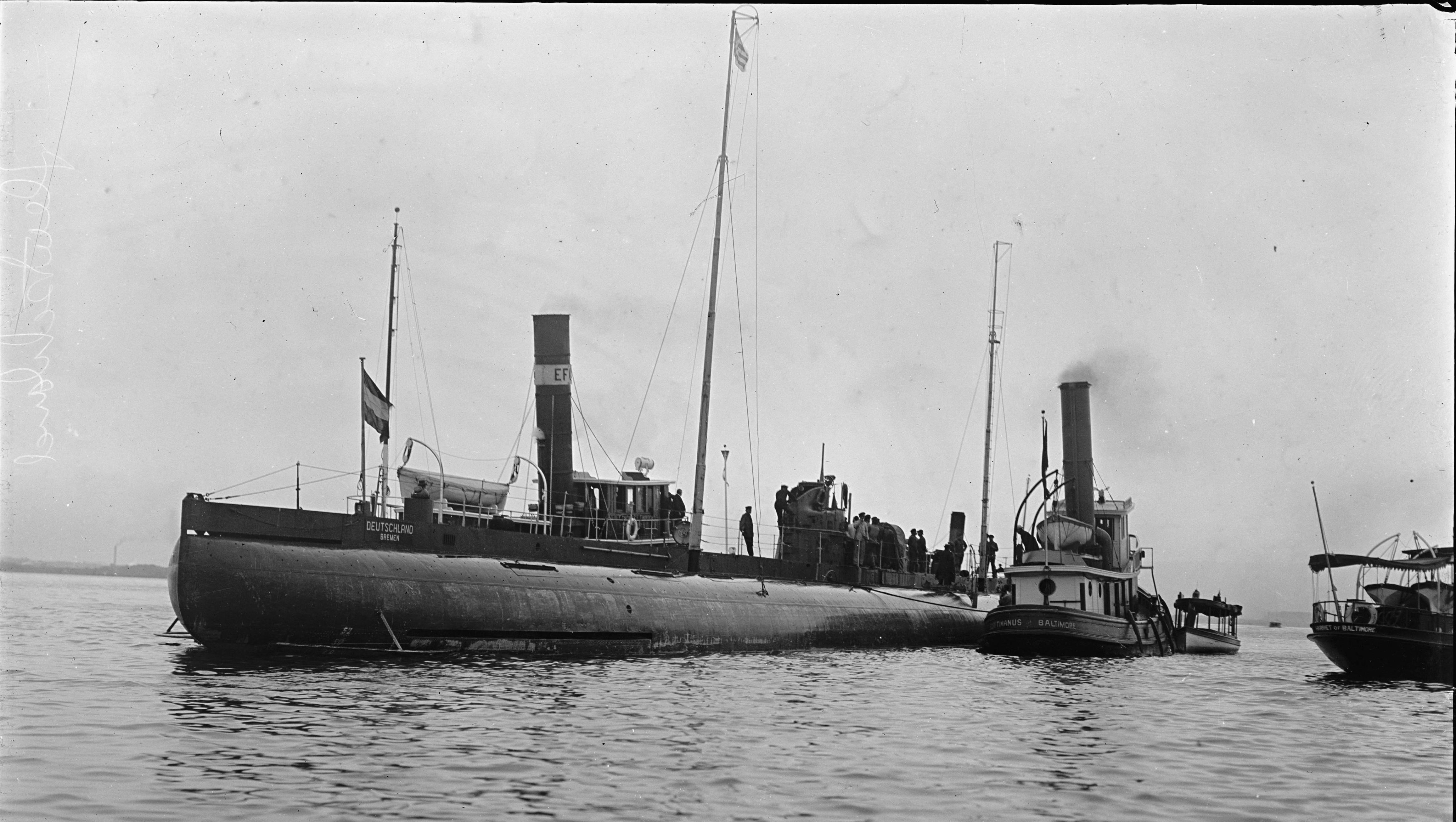 Merchant submarine "Deutschland"